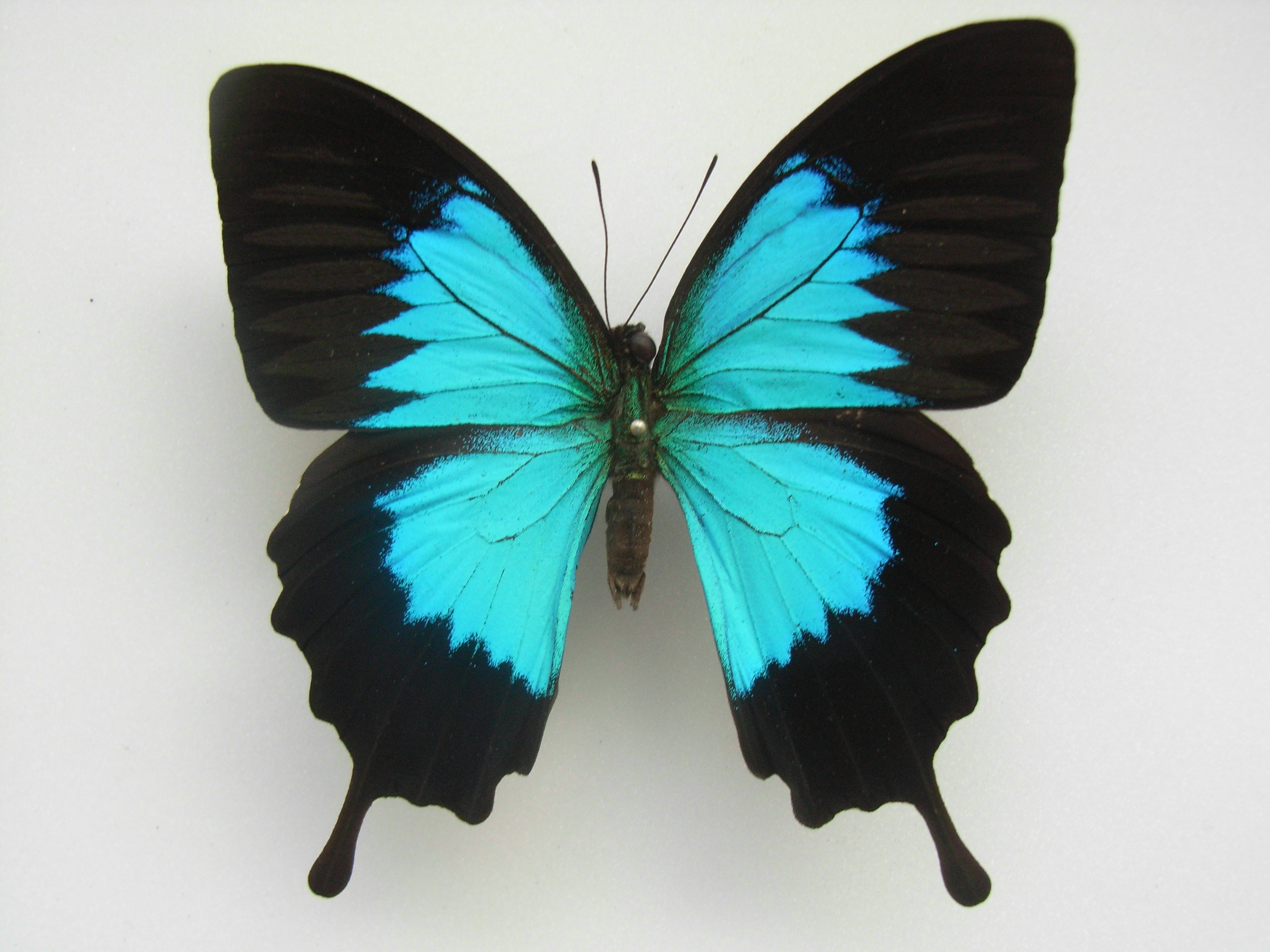 Papilio ulysses ambiguus Rothschild, 1895 Rabaul New Britain